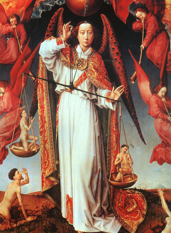 The Archangel Michael, from the Altarpiece of the Last Judgement